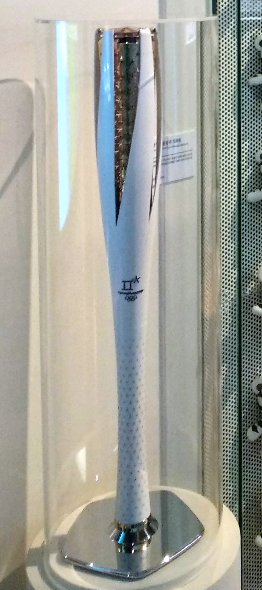 2018 Winter Olympic & Paralympic Torch exhibited at the National Museum of Korean Contemporary History(Korean Modern Sports History Exhibition, Celebrating the Pyeongchang Olympic Winter Games/Korean Sports, A History Written in Sweat)